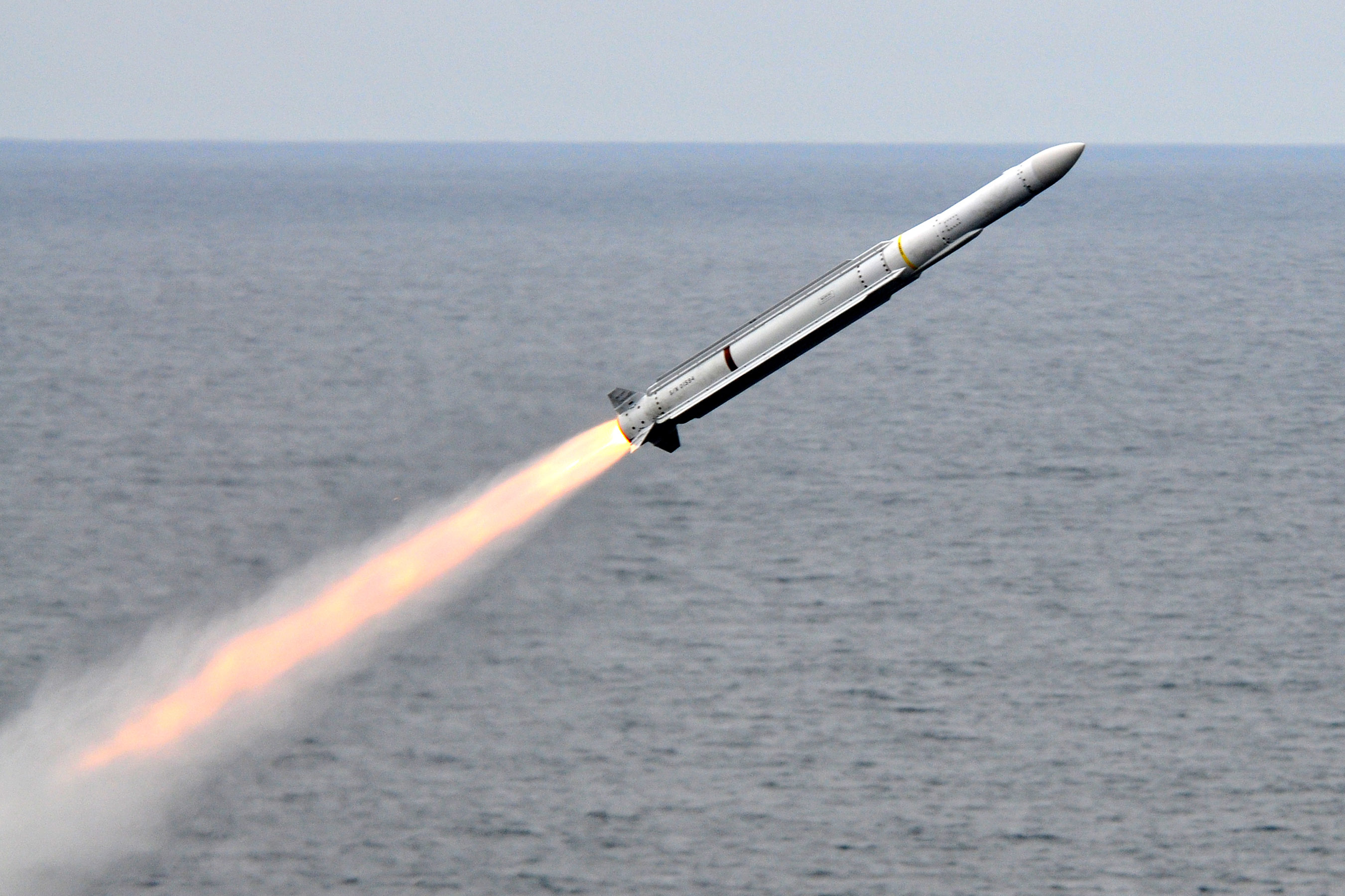 An RIM-162 Evolved Sea Sparrow missile is launched from the aircraft carrier USS Carl Vinson (CVN-70) off the coast of Southern California (USA), on 23 July 2010.